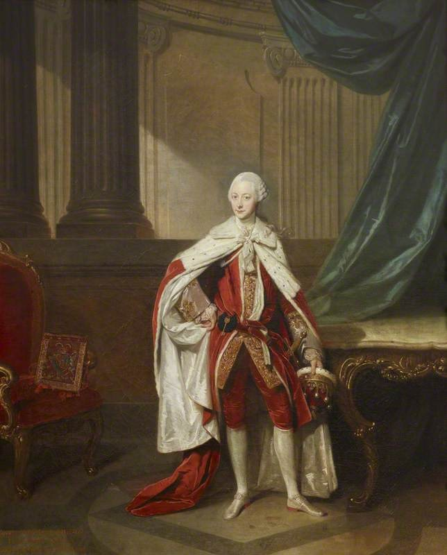 Portrait of George William Hervey, 2nd Earl of Bristol (1721-1775)